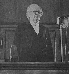 Besim Ömer Akalın in the late 1930s.